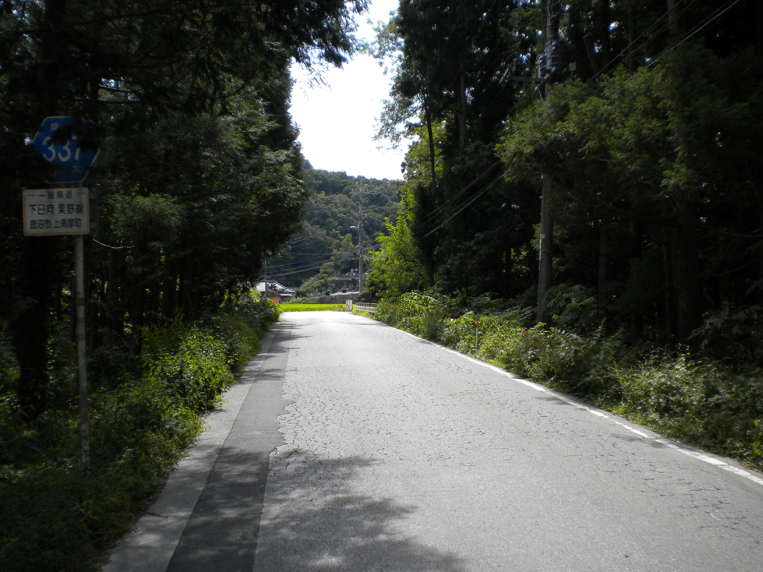 The Tochigi Prefectural Road Route 337 in Kaminanmamachi, Kanuma City